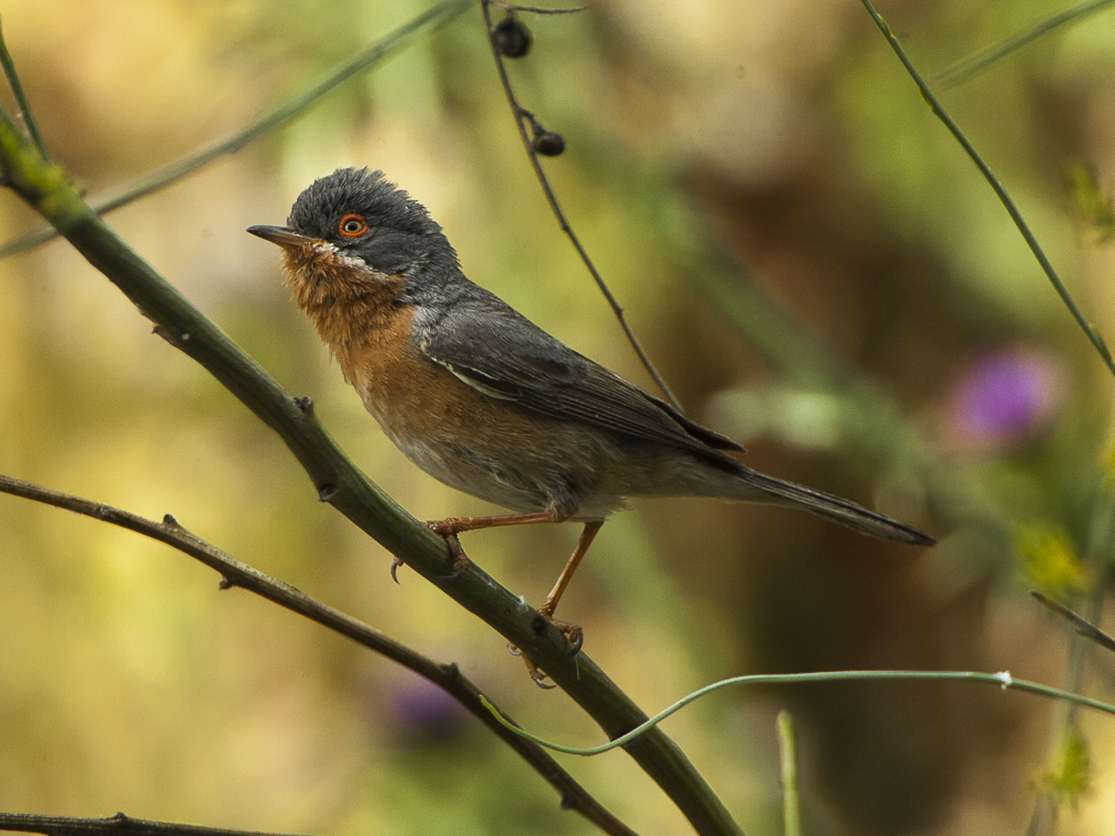 Subalpine Warbler - Monfrague - Spain_2669